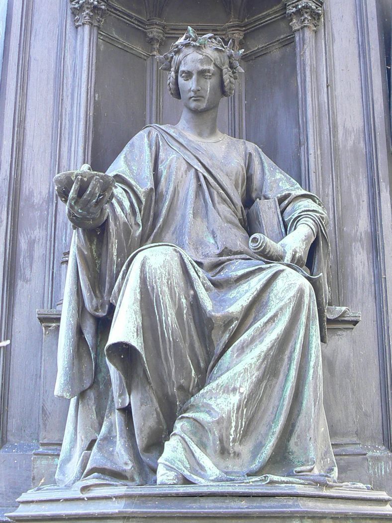 Personification of the Faculty of Medicine (decoration of the eastern face of the pedestal of the statue of Charles IV, Holy Roman Emperor; Křižovnické Square, Prague, Czechia)